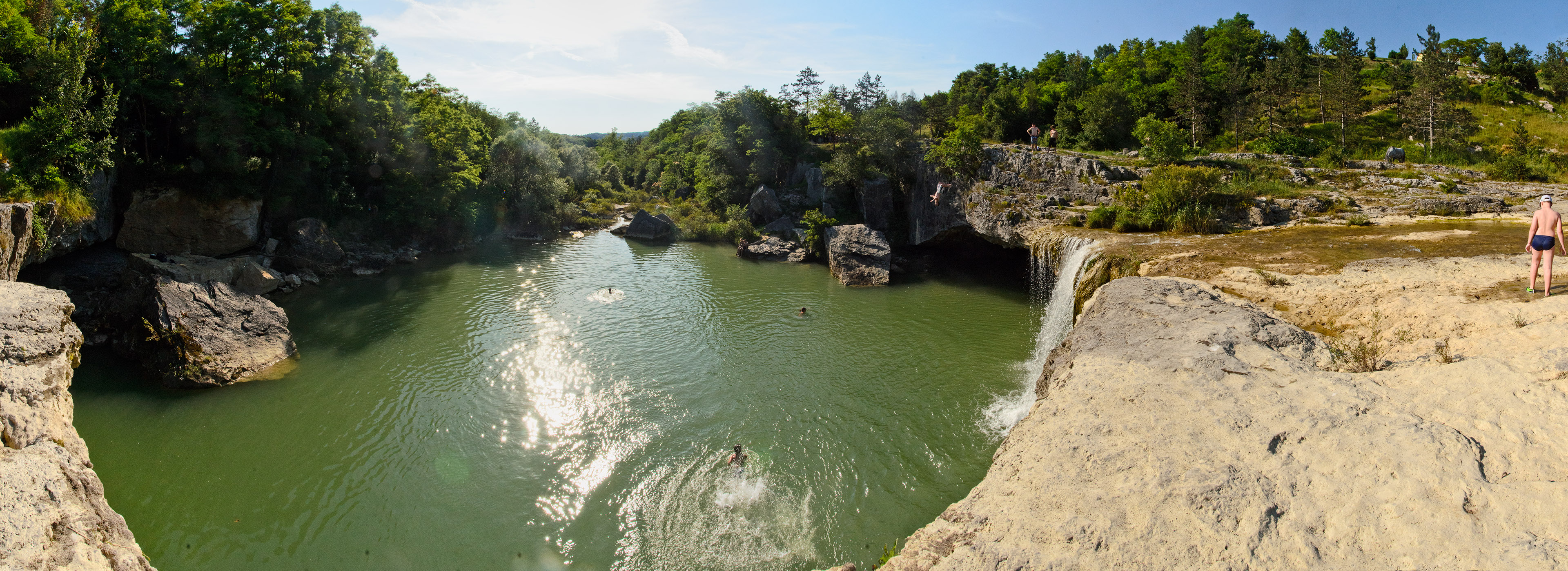 Swimming in Zarečki krov. Panorama.